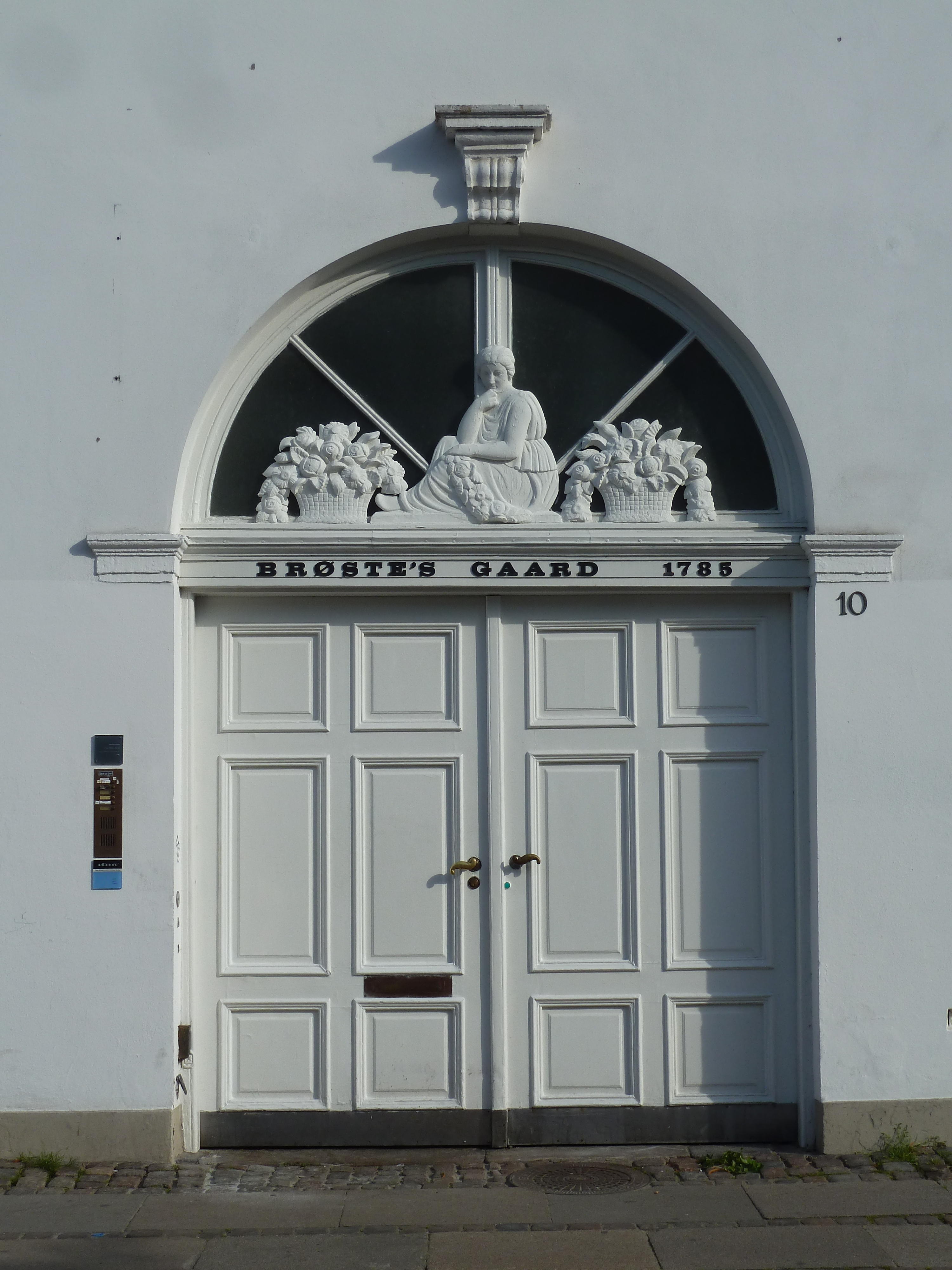 The gate of Brøstes Gård in Copenhagen, Denmark